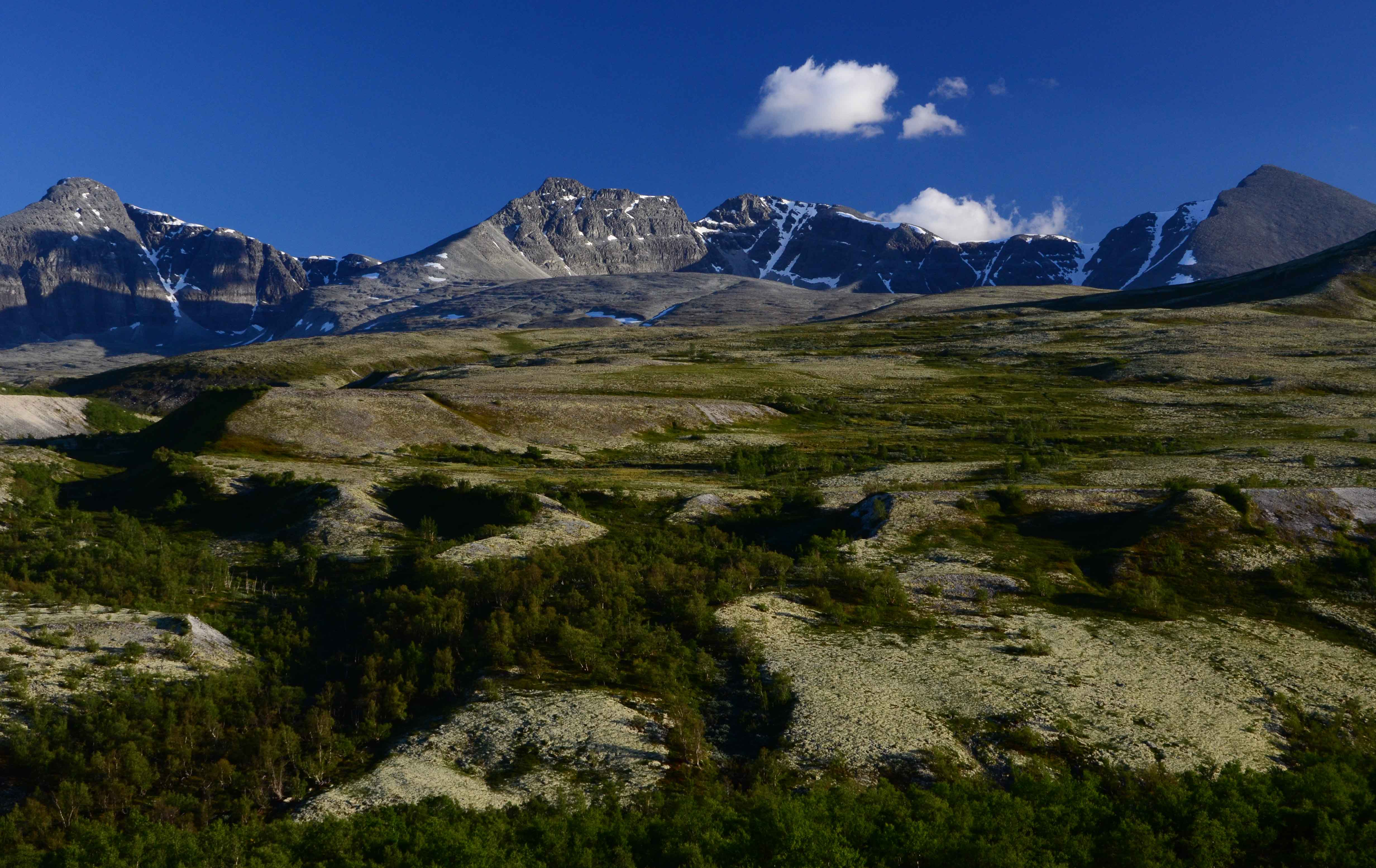 Rondane National Park, Norway.